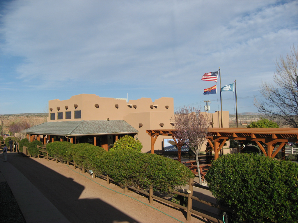 Main terminal and headquarters of the Verde Canyon Railroad in Clarkdale, Arizona.